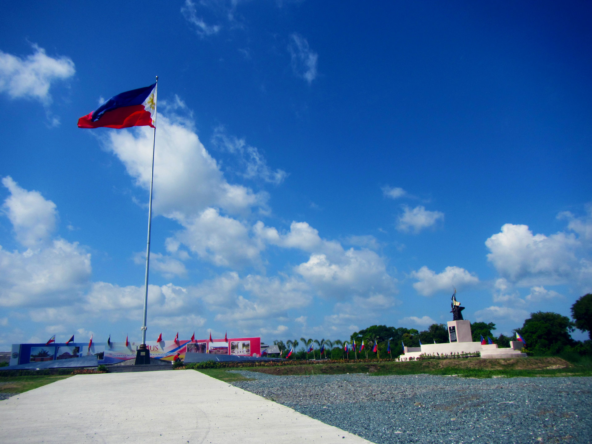 A heritage park in the Philippines marking the place where the battle between Filipino and Spanish took place marking the first time the modern Philippine flag has been brandished in victory. Shot by Schadow1 Expeditions.